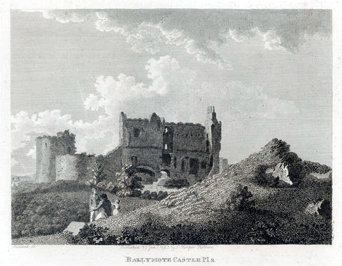 Ballymote Castle 1792